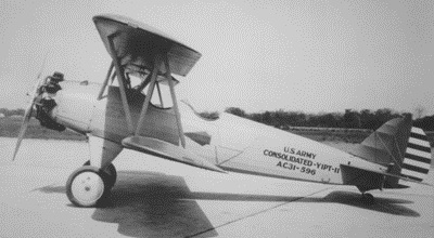 Consolidated Y1PT-11 Summary U.S. Air Force Photo